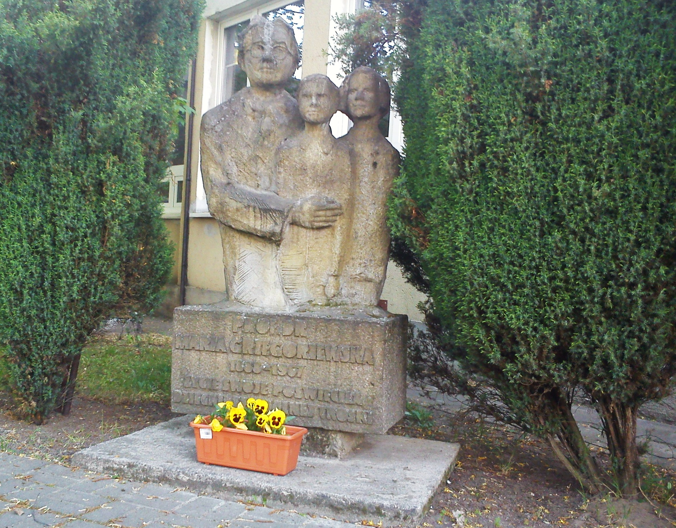 Maria Grzegorzewska Monument, Poznan.